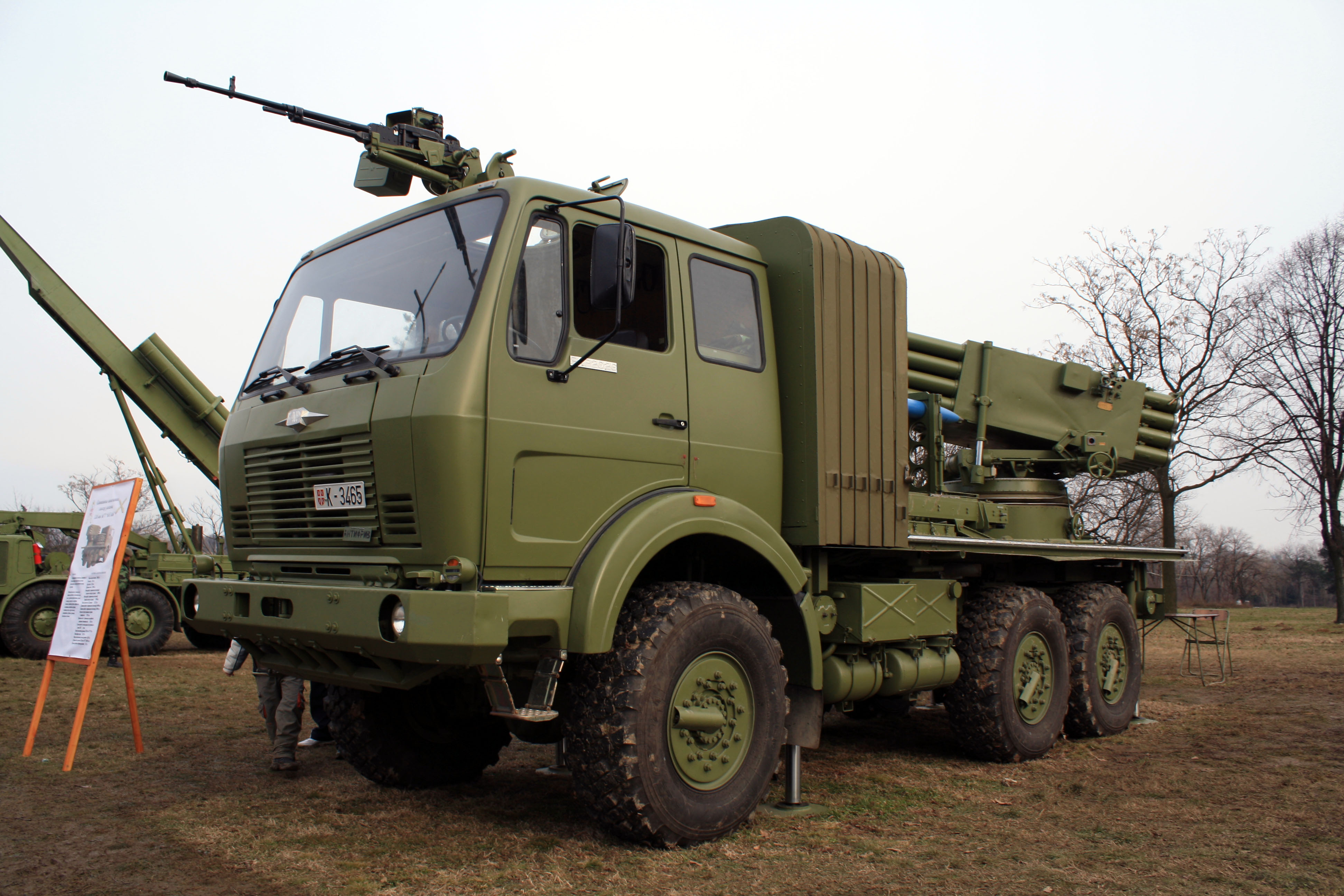 M77 Oganj 128mm MLRS of Serbian Army on display after military exercise "Ušće 2011".